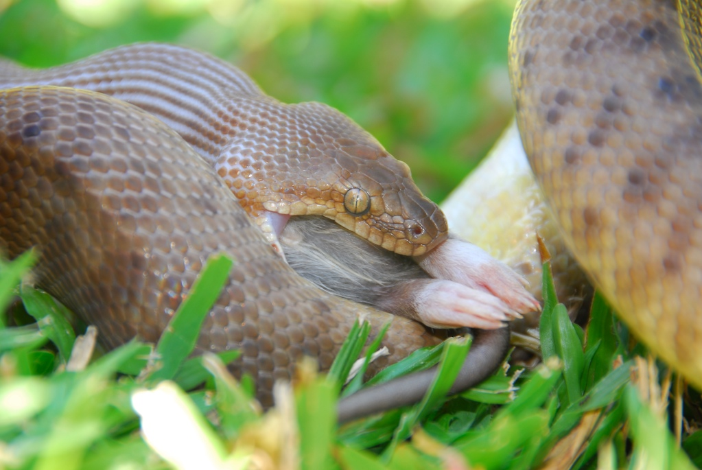 Captive Children's python (Antaresia childreni) eating a small rat.